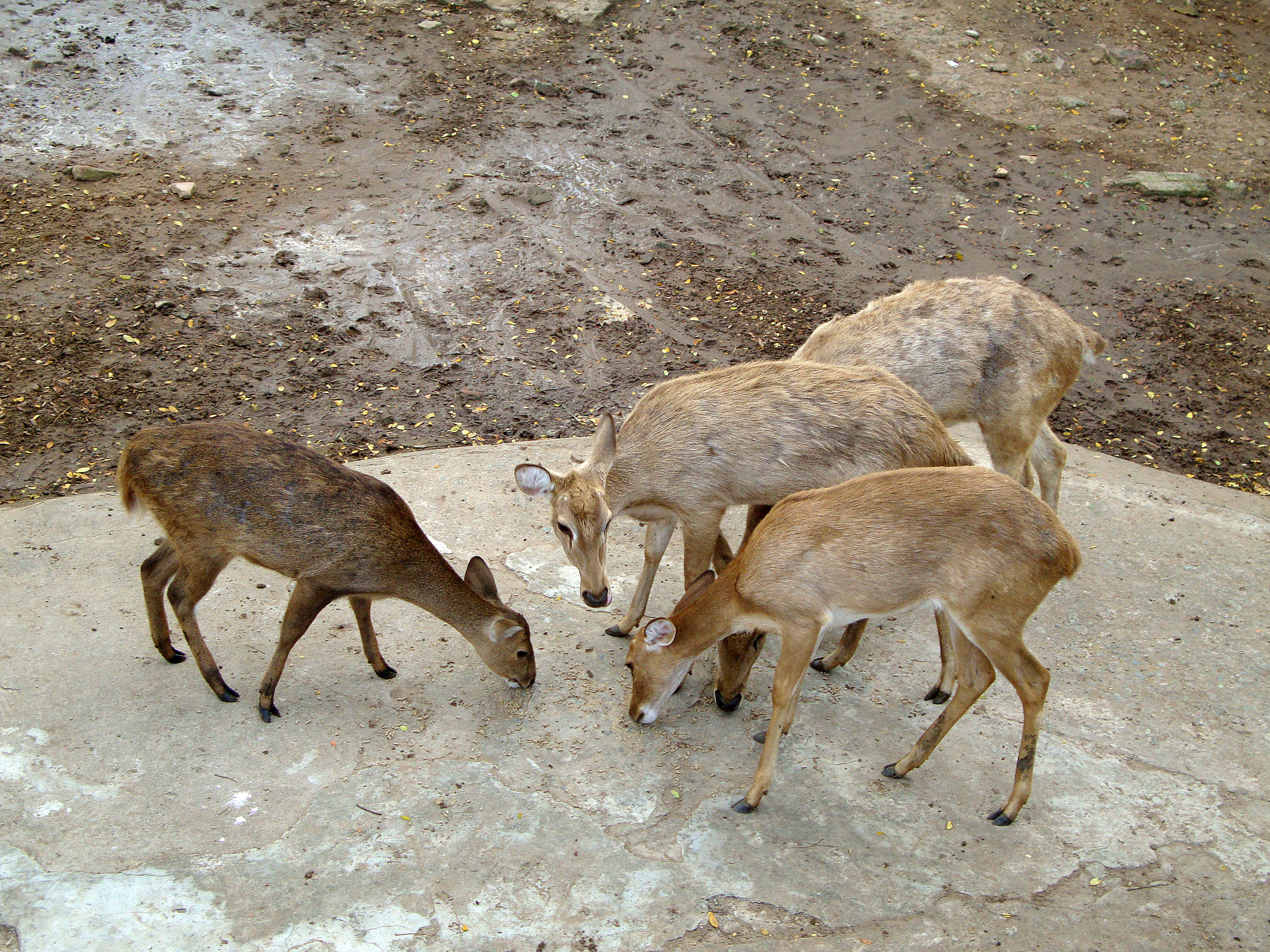 Sambar deer